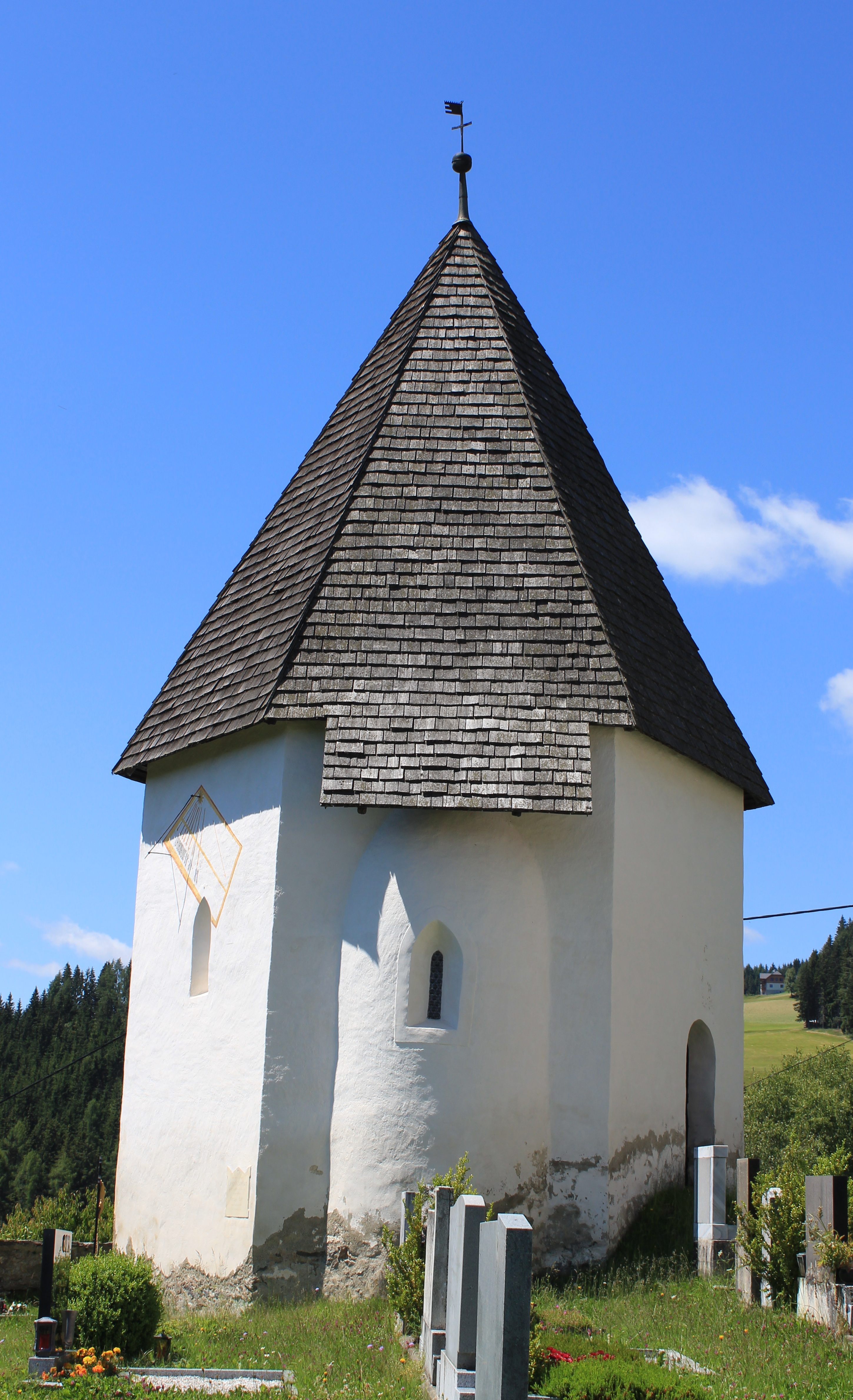 Ossuary in Feitritz ob Grades in the community of Metnitz